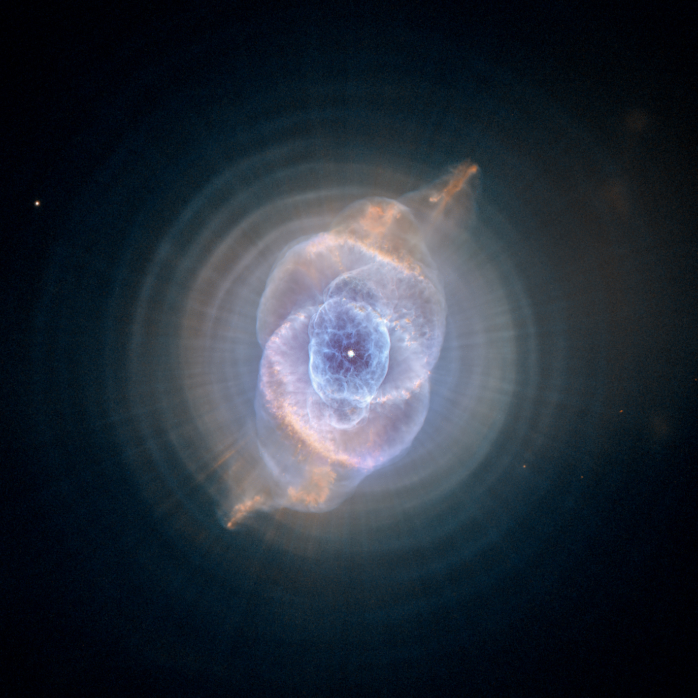 NASA Image, Hubble ST, Cat's Eye Nebula